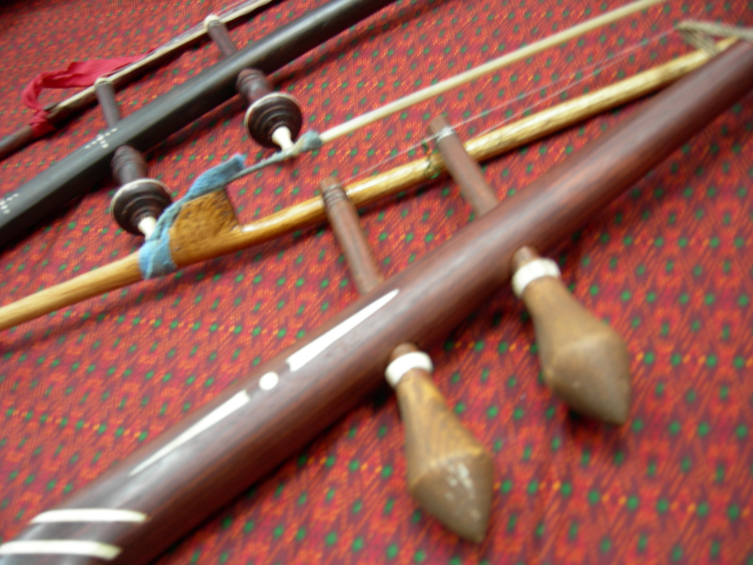 Tuning pegs of a pair of tro (Khmer stringed instruments), photographed at API (Asian Pacific Islander) Heritage Month Festival, part of Festál at Seattle Center, Seattle, Washington.